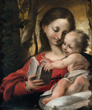 Virgin and Child